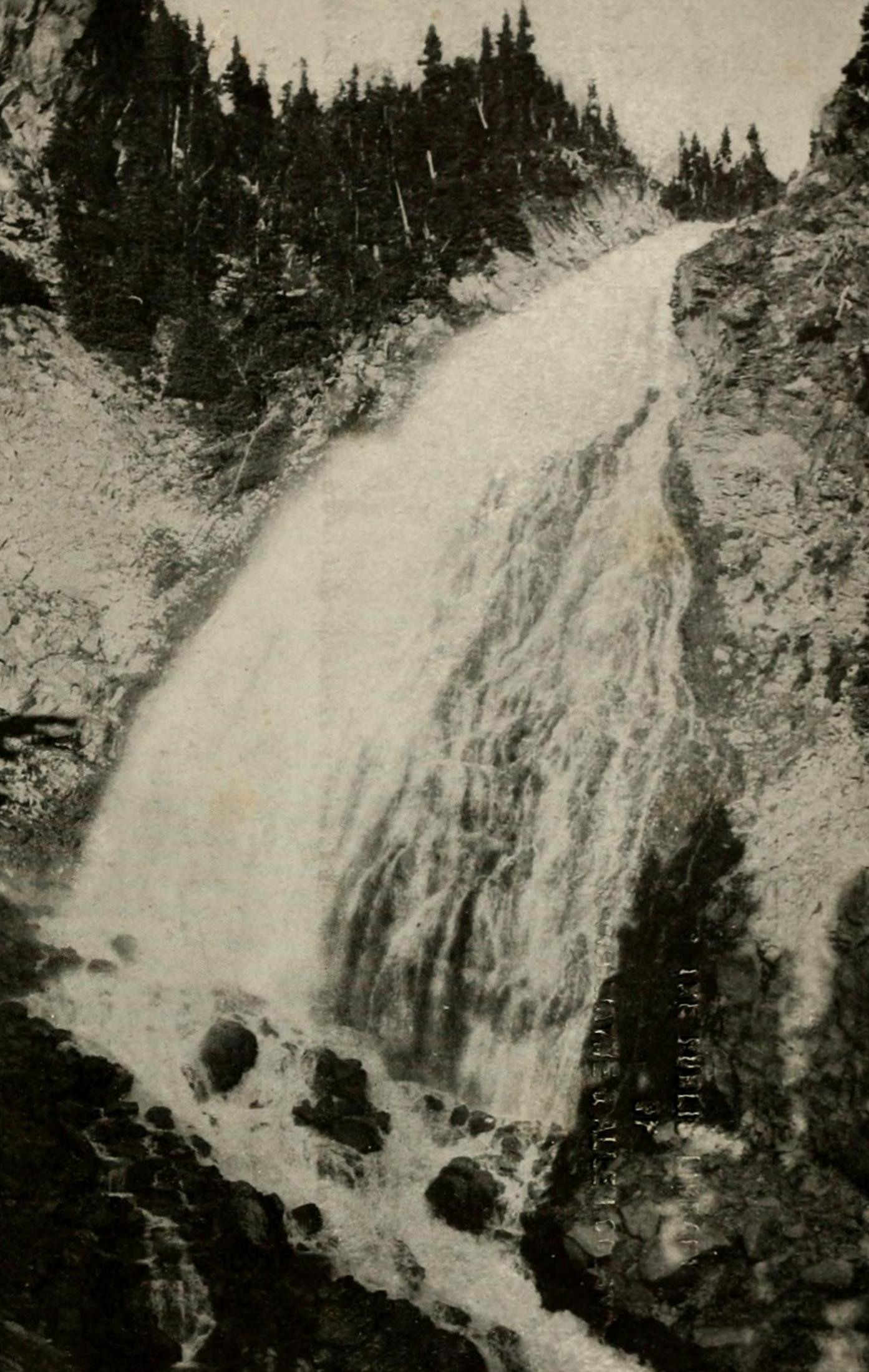 Sluiskin Falls, Mount Rainier National Park